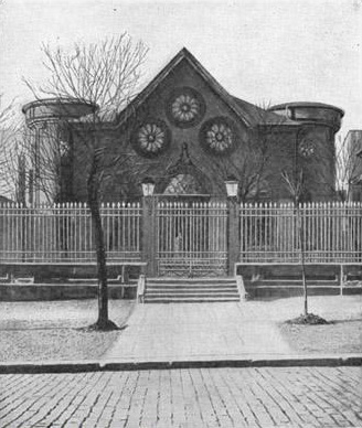 Karaite Kenassa in Odessa. Functioned at the beggining of the WWWI at the address 31 Troitska St. Destroyed in 1927.